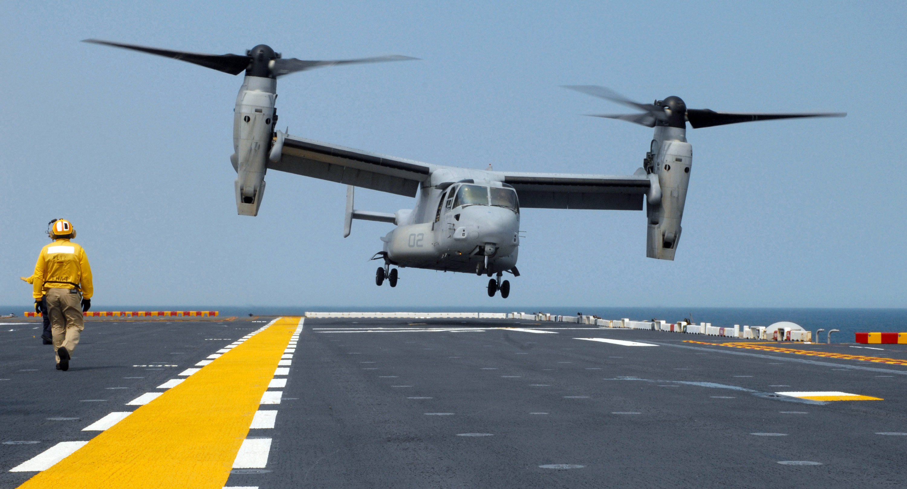 ATLANTIC OCEAN (June 29, 2007) - Chief Aviation Boatswain's Mate Handler Ricardo Zaldana, observes the landing of an MV-22 Osprey aboard the amphibious assault ship USS Nassau (LHA 4). USS Nassau is currently on a scheduled underway, that tested various aspects of the ships combat readiness. U.S. Navy photo by Airman Michael Minkler (RELEASD)